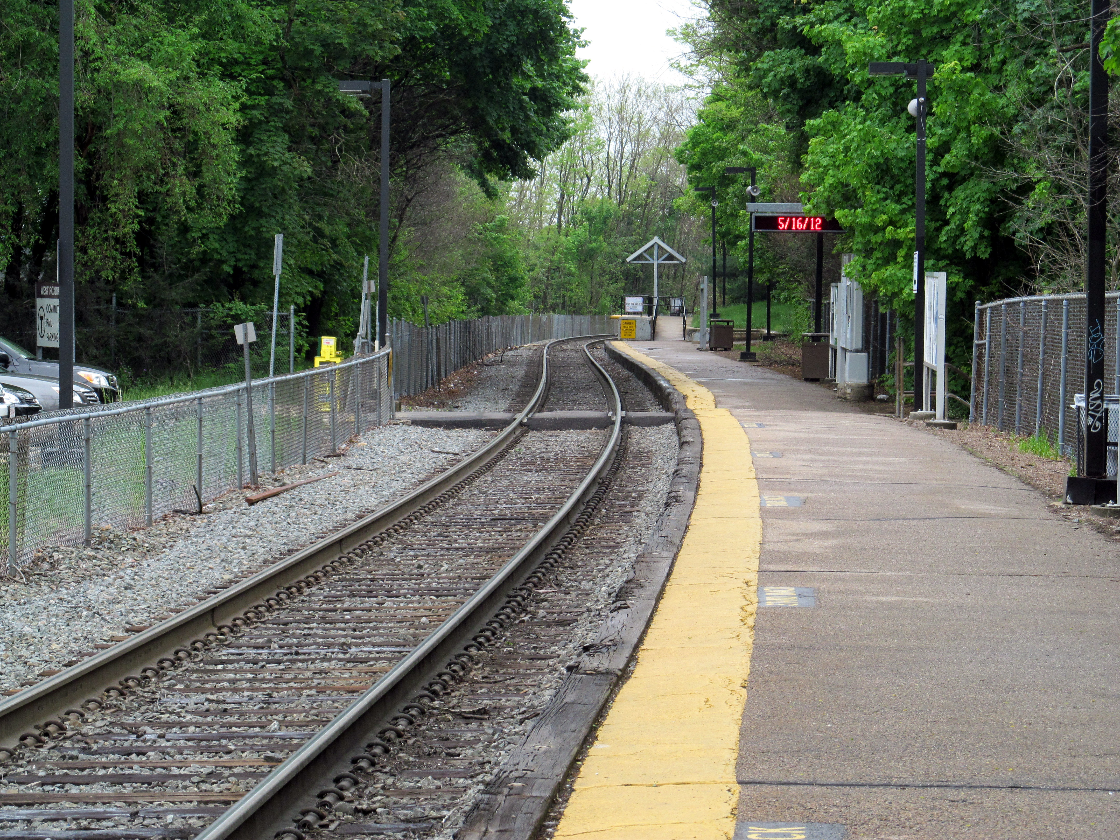 Platform at West Roxbury station, looking outbound